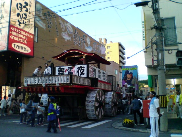 "Andon", a kind of float, lit in parades at night. On Rumoi Dontou Matsuri (呑涛まつり), Rumoi City（留萌市）, Hokkaido Pref., Japan.